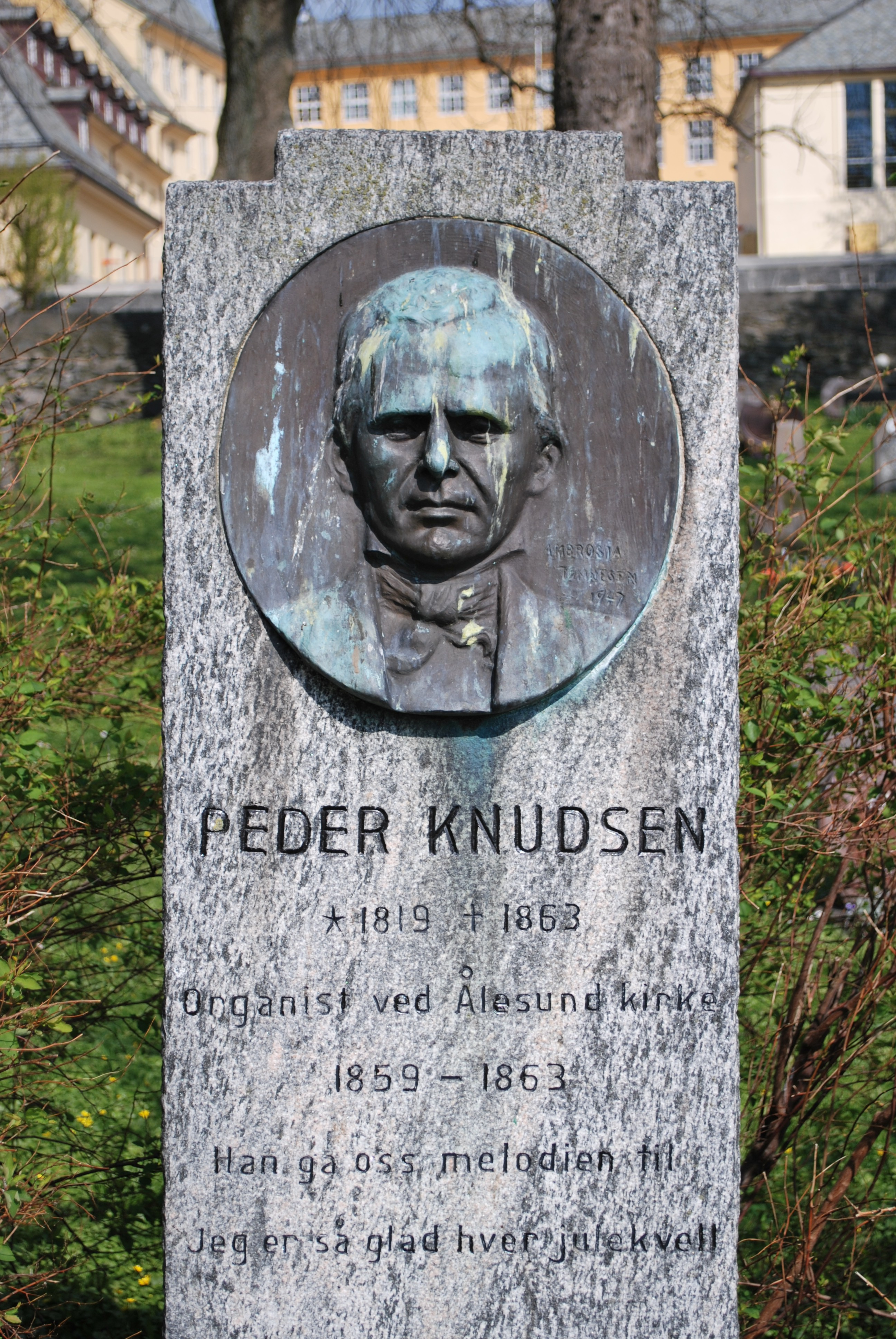 Peder Knudsen monument, by Ambrosia Tønnesen, outside Ålesund Kirke, Ålesund.